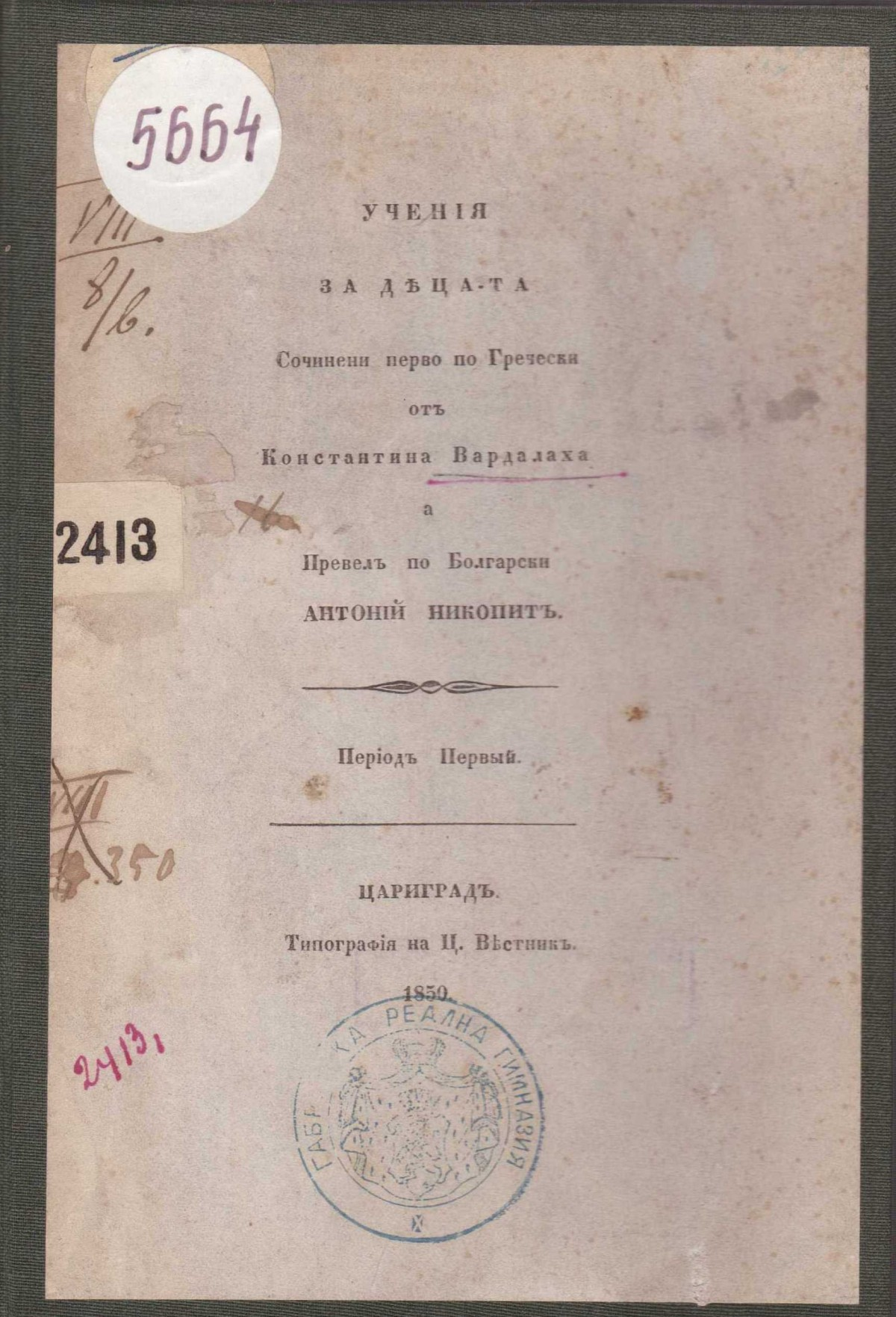 Antoniy Nikopit Textbook Cover